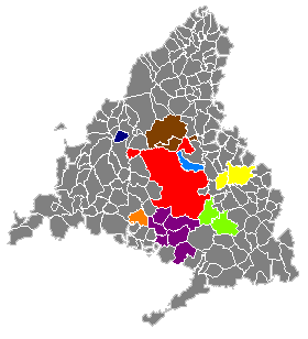 Metropolitan areas inside the Madrid metropolitan area.